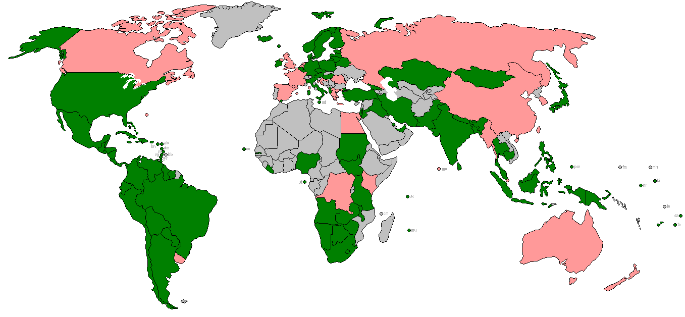 Countries that have a national bird (green, official; pink, unofficial)